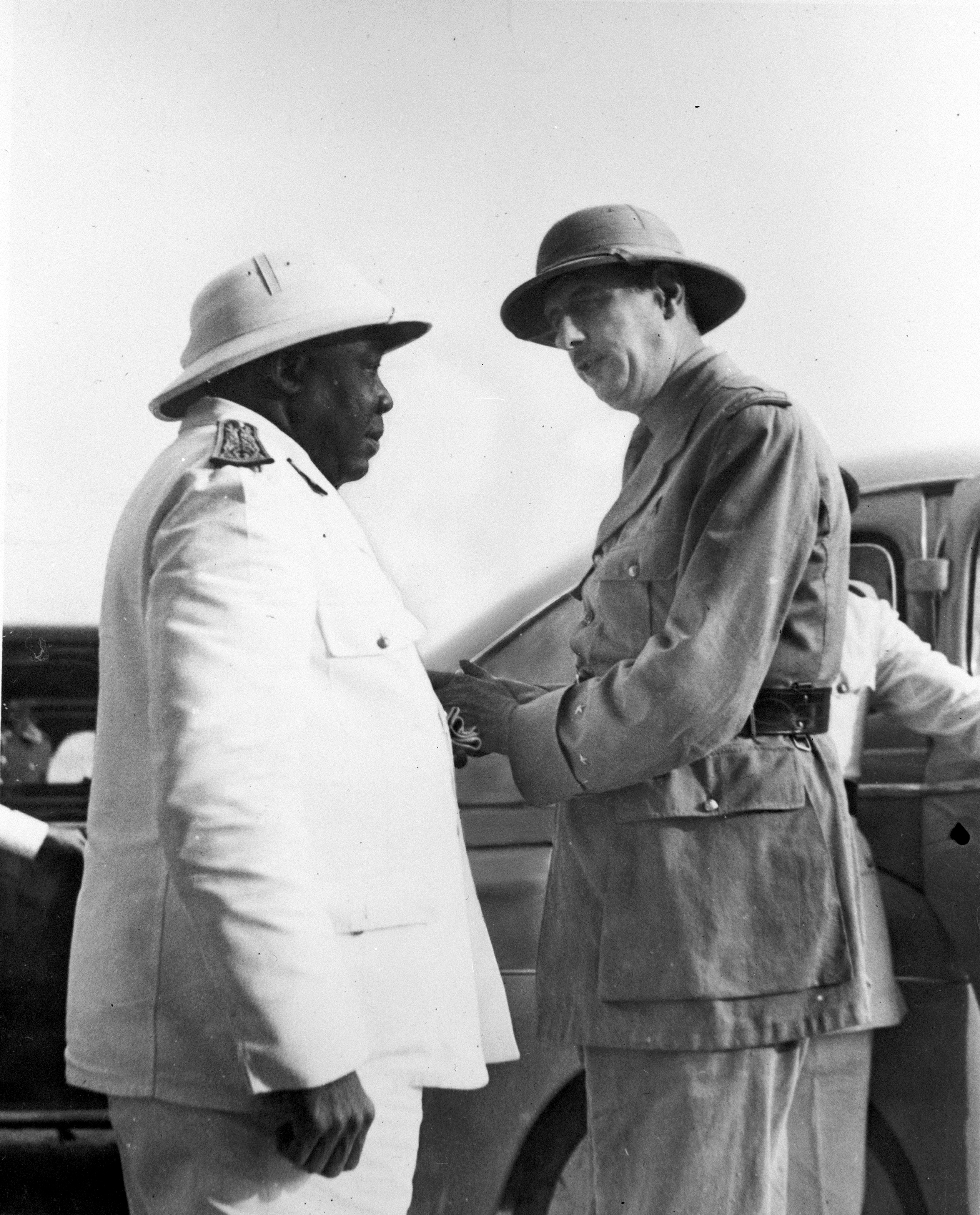 Charles de Gaulle is welcomed to Chad by Govenor-General Félix Adolphe Éboué (December 26, 1884 - March 17, 1944) of Free French Africa. Governor-General Eboue, a native of French Guiana, was the first black colonial governor in Africa. As governor of the Chad colony, he was the first African leader to rally to the Free French cause. Created and published between 1939 and 1944. Part of the Farm Security Administration - Office of War Information Photograph Collection (Library of Congress).